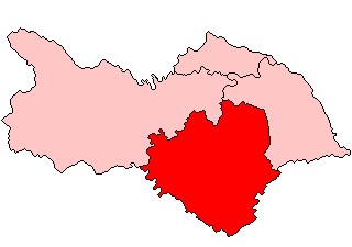 Thirsk And Malton Parliamentary Constituency 1918-1948, shown within The North Riding of Yorkshire.